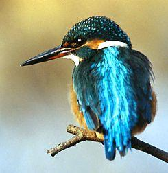 Alcedo atthis